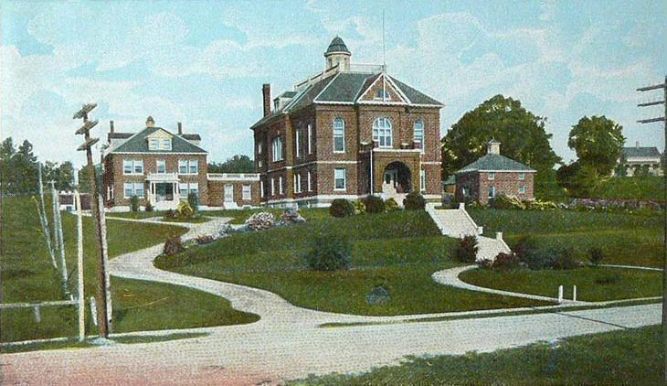 Oxford County Courthouse and Buildings, South Paris, Maine. It was built in 1895.